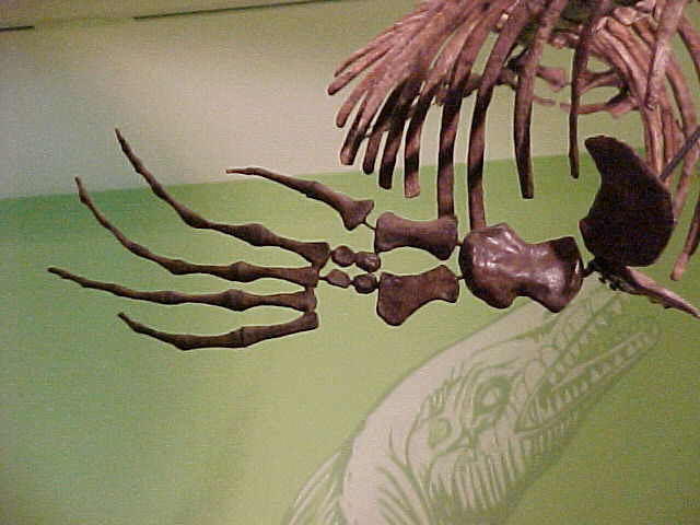 This is a photograph from my own collection. I am the photographer. Taken 12/6/01, Atlanta, Georgia.